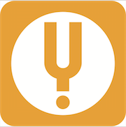 CuriosityStream logo.